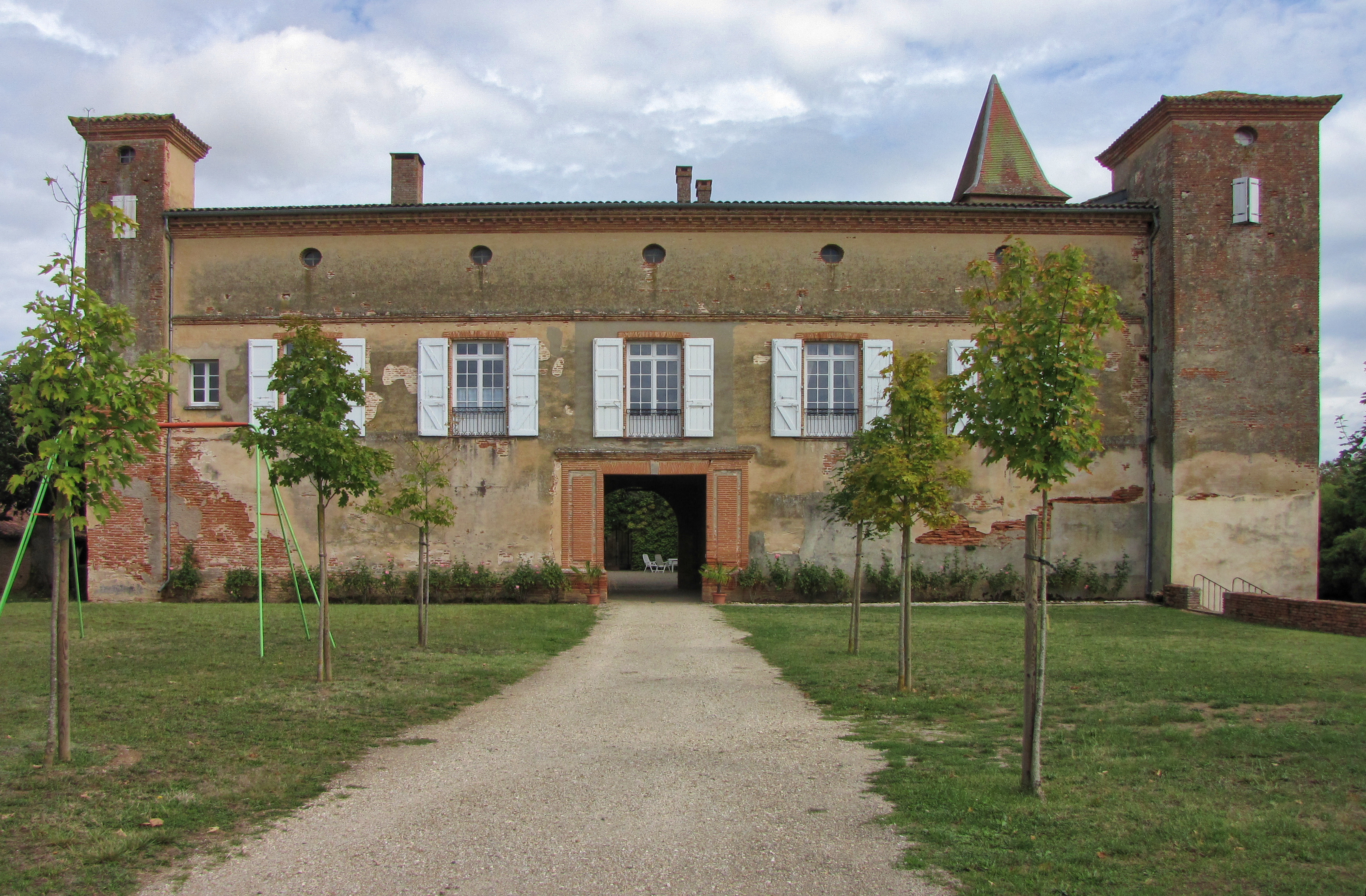 Castle of Mézens, seen from West. .